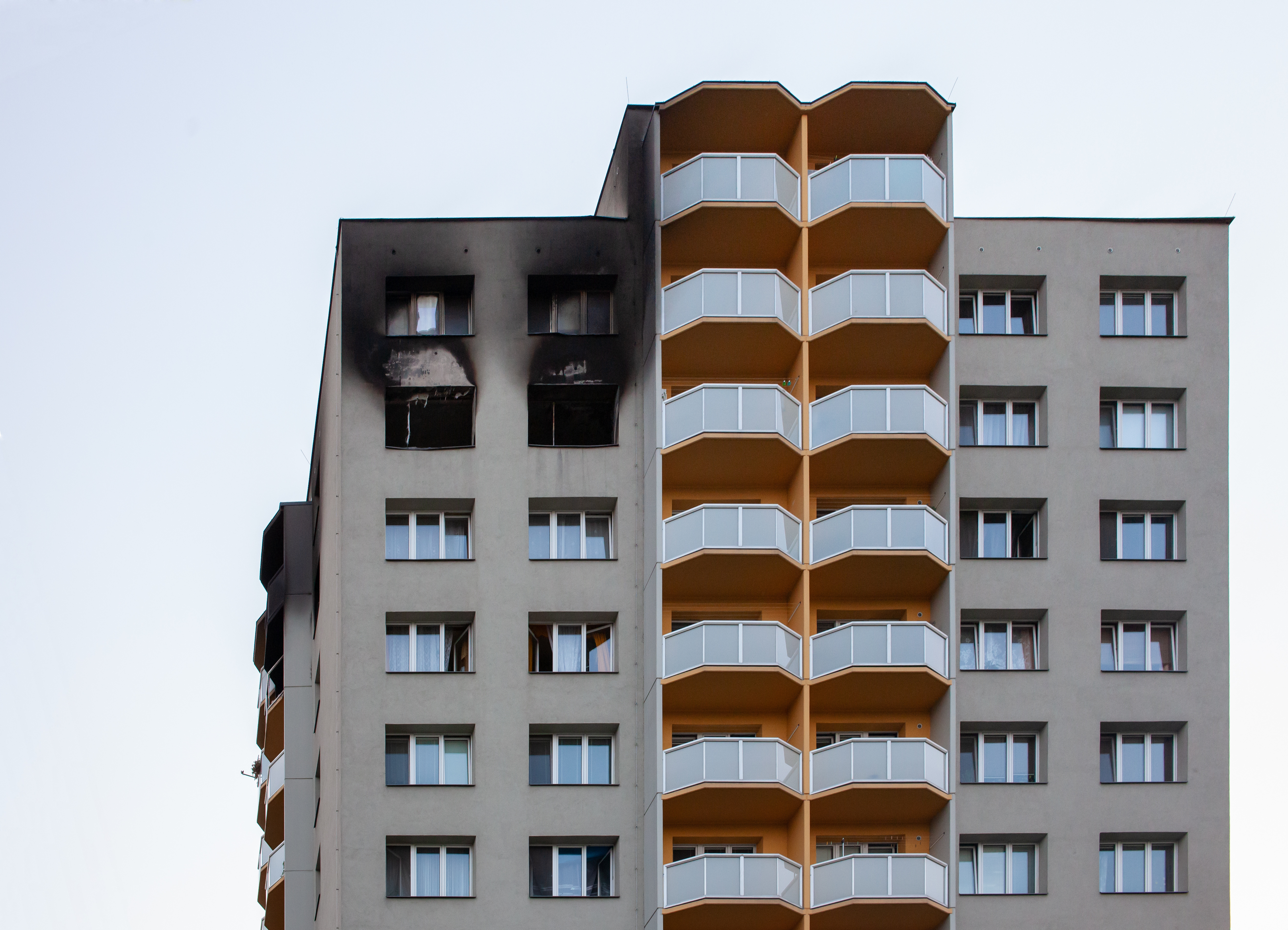 2020 Bohumín arson attack - detail of the attacked building (east side), Bohumín, Karviná District, Moravian-Silesian Region, Czechia